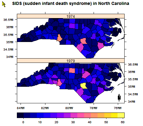 Sids (Sudden Infant Death Syndrom) in North Carolina with R and CRAN's help using meuse data